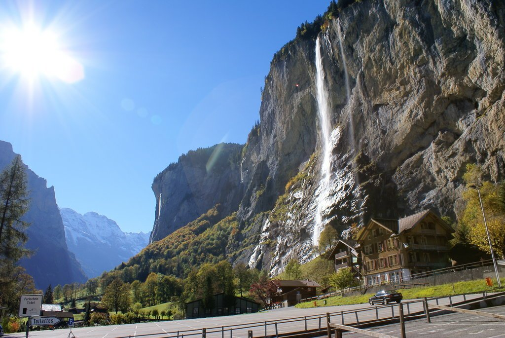 Staubbach Falls in Lauterbrunnen